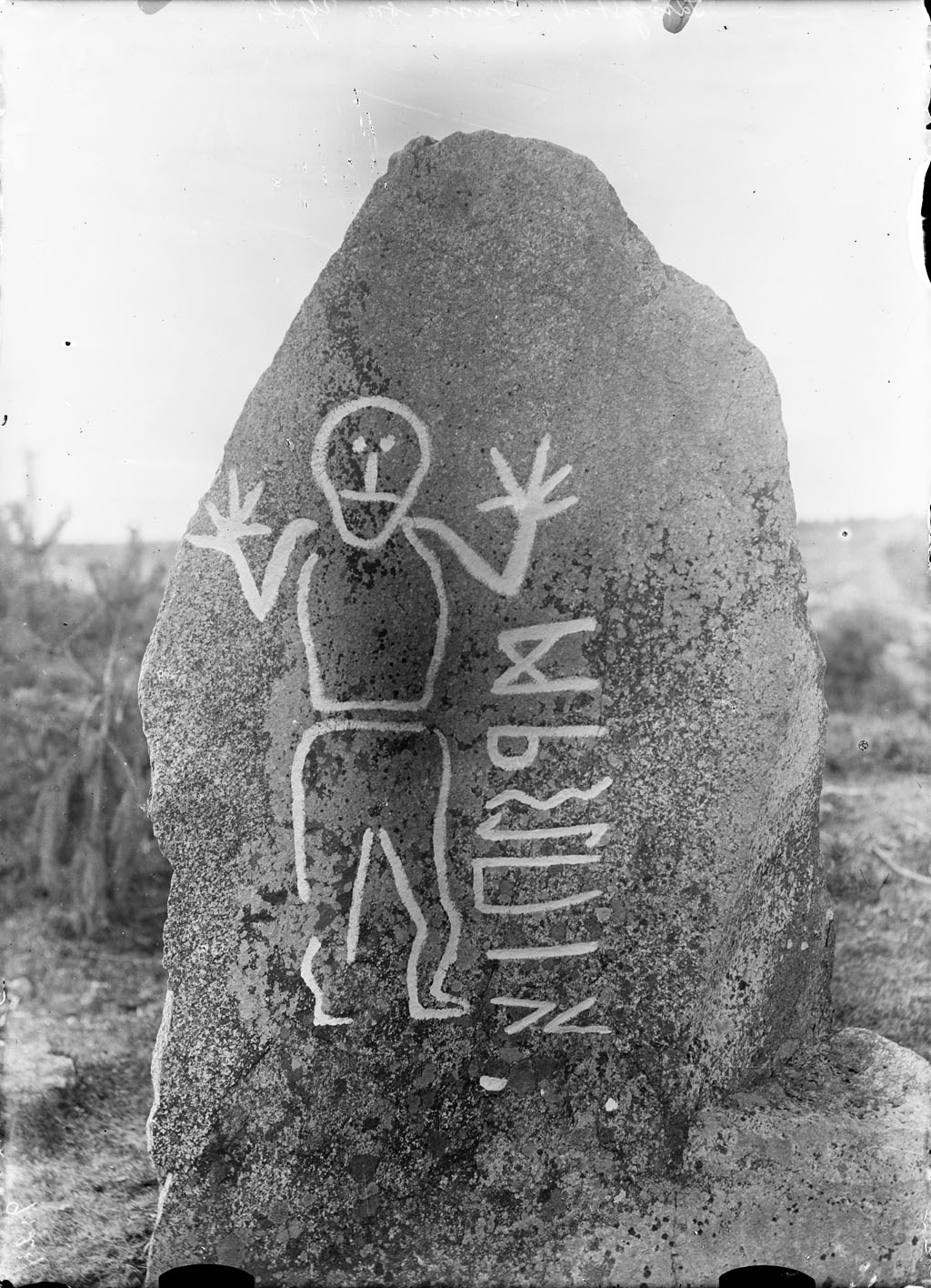 Rune stone (U 1125) in Krogsta. The oldest rune stone in Uppland and the only one with the elder rune alphabet. Rune stone with a human figure and an undeciphered inscription from the 6th century AD. Format: Glass plate negative